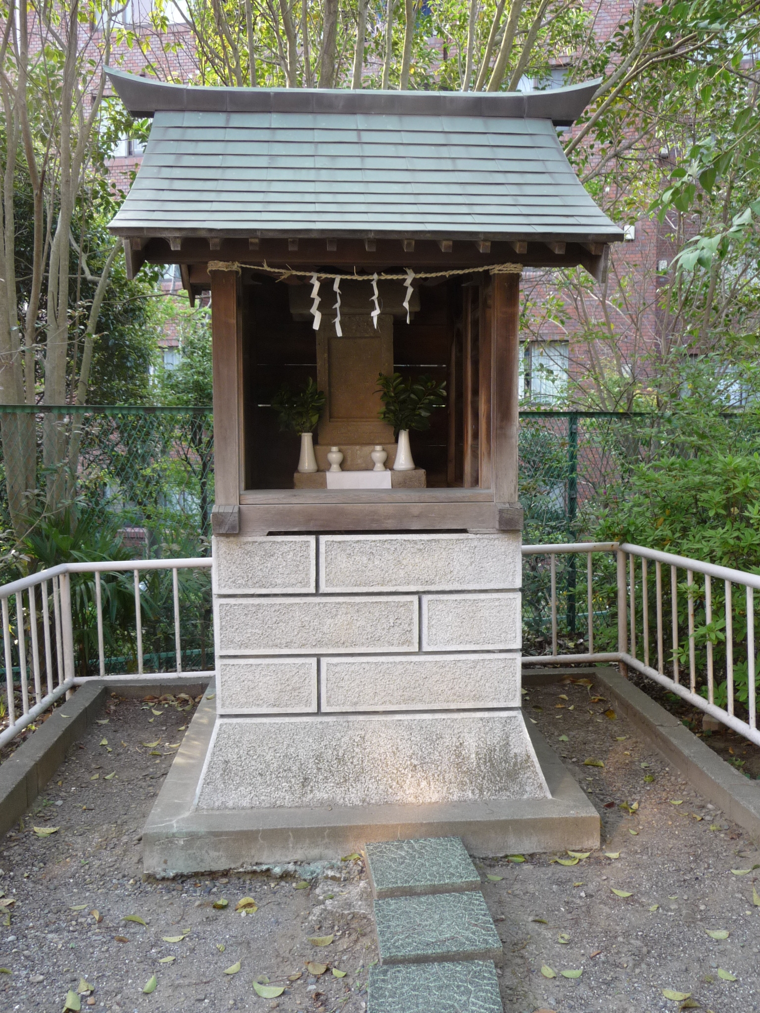 Katsushika Jinja origin, Funabashi Chiba